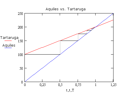 The Zeno Paradox in portuguese. Derivate work from Zeno Paradox de.PNG